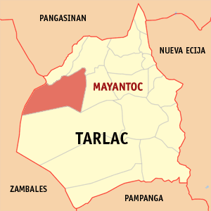 Map of Tarlac showing the location of Mayantoc